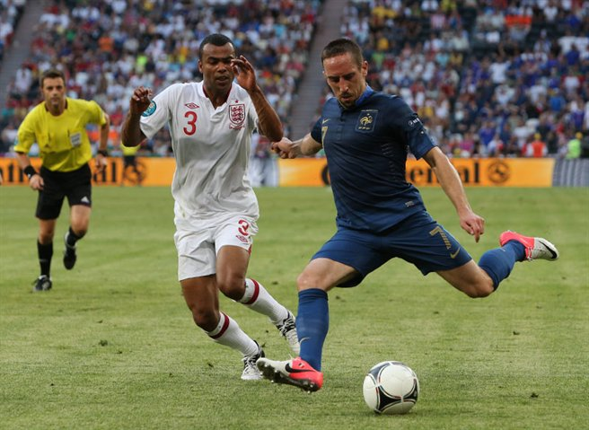 UEFA Euro 2012 match between France and England played in Donetsk at Donbas Arena. Final result was 1:1 (Nasri, Lescott).